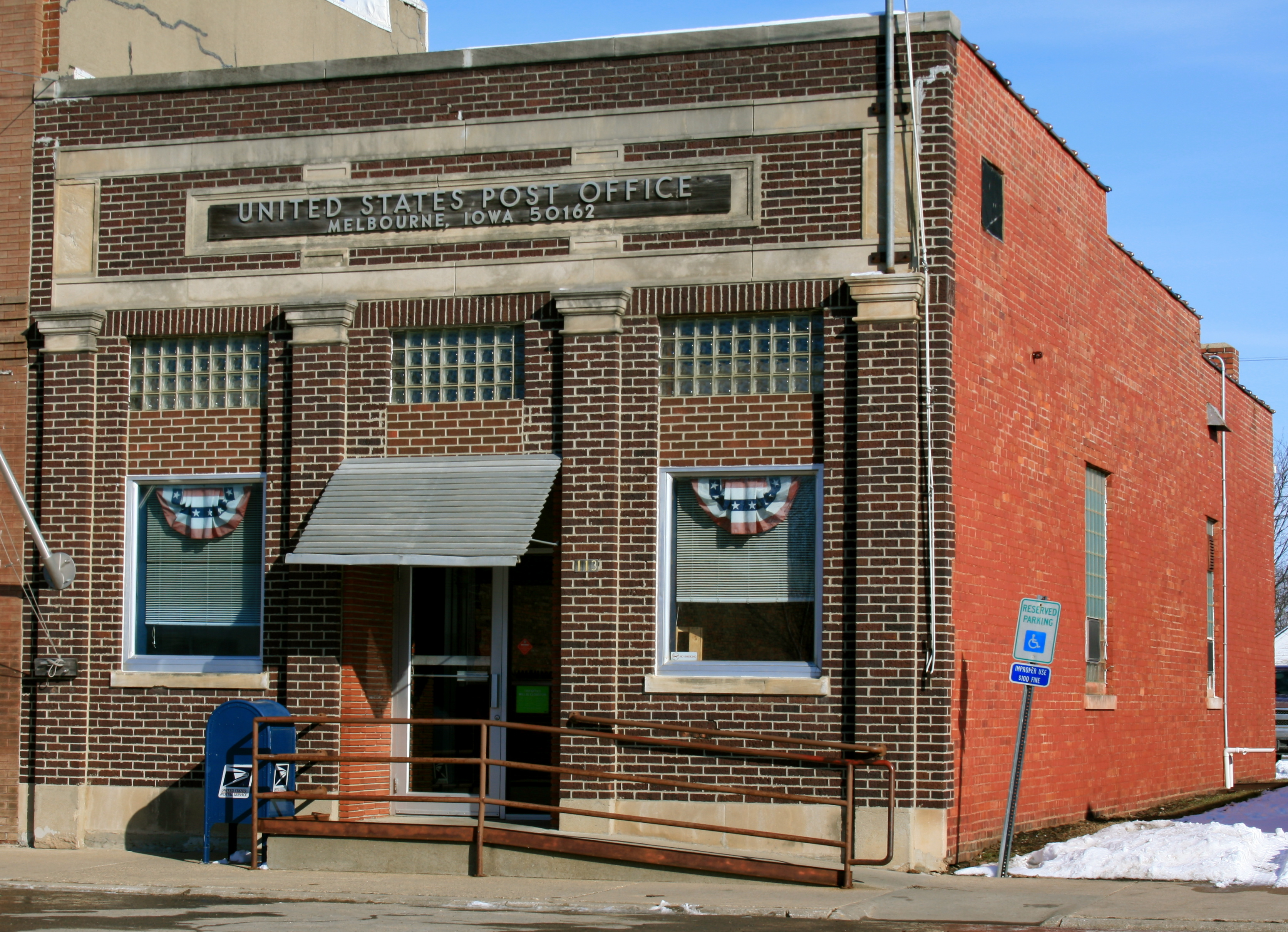 Post office located in Melbourne, Iowa